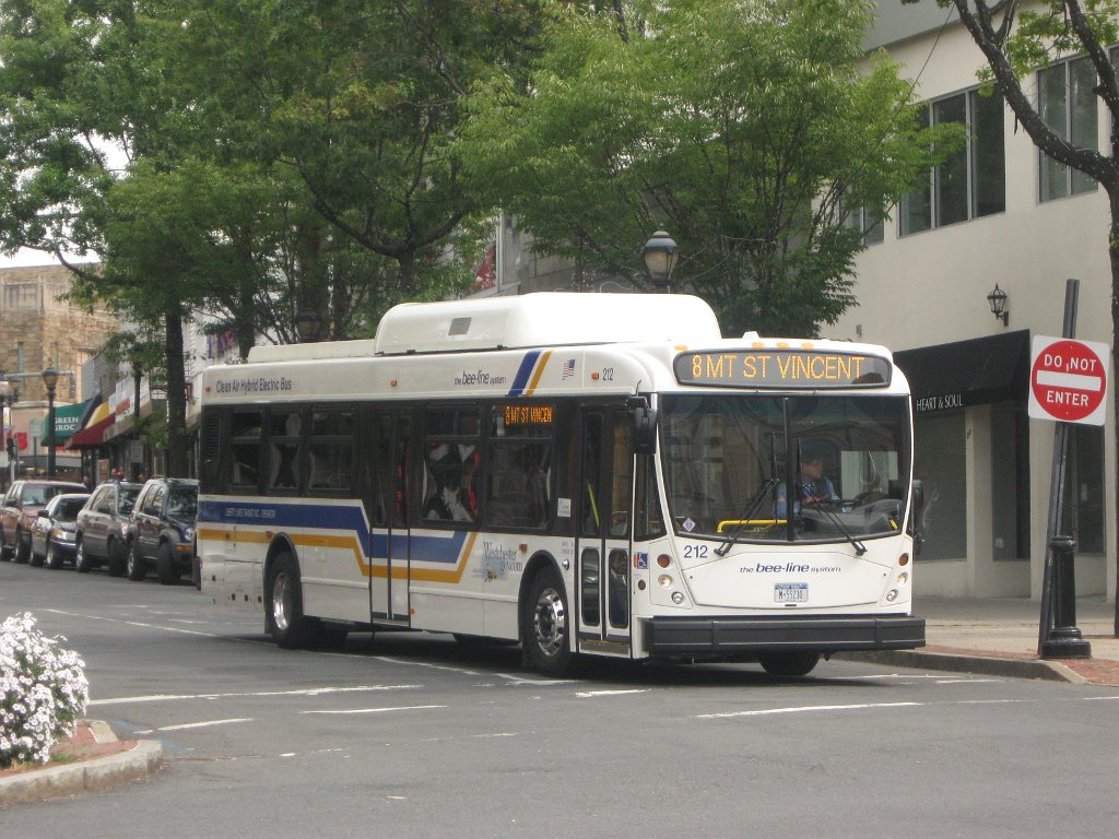 Bee-Line NABI 40LFW hybrid #208 operates along Route 8 in Yonkers, New York.